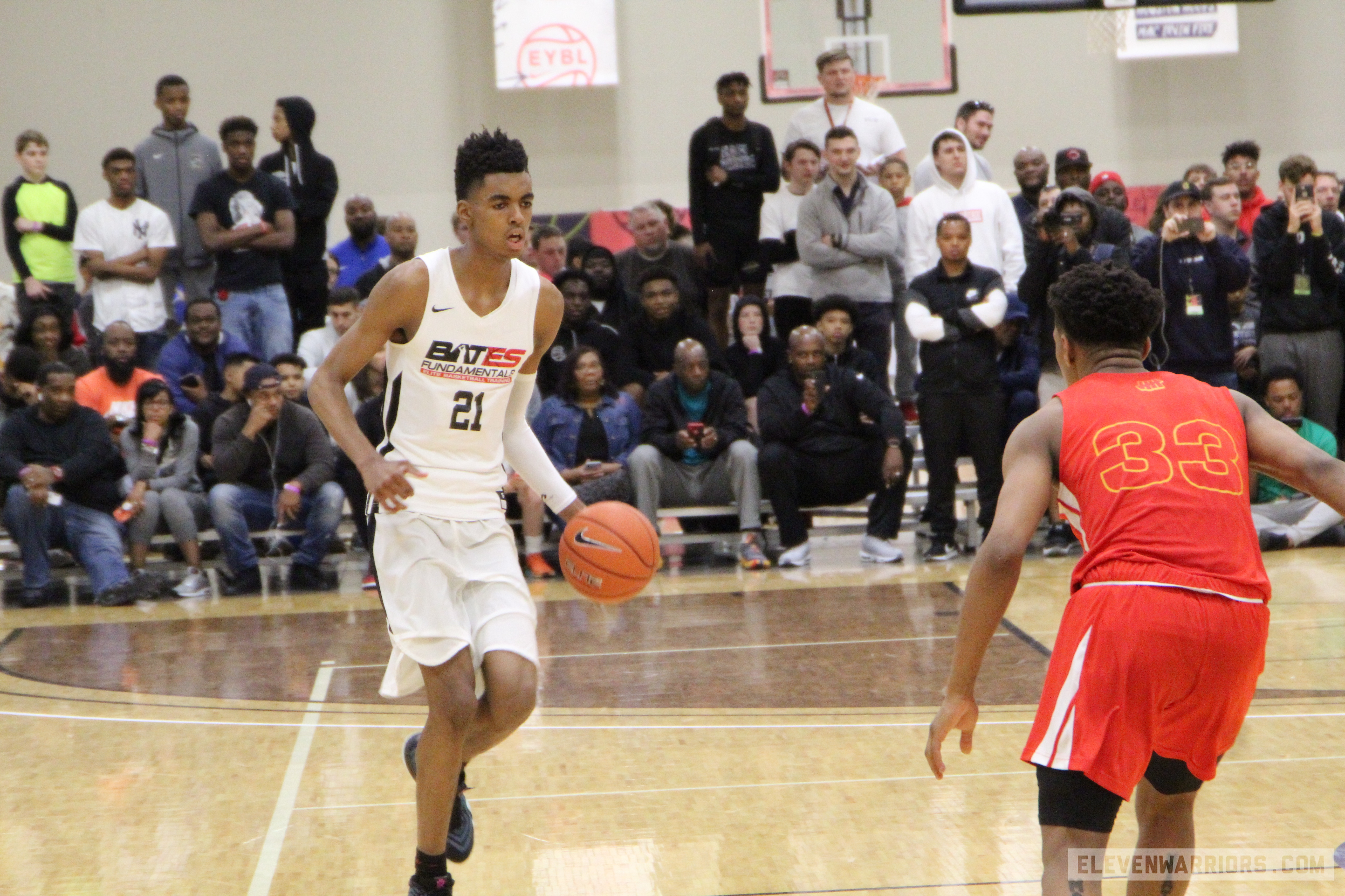 Emoni Bates plays for Bates Fundamentals at the second session of Nike EYBL in Westfield, Indiana, on May 11. Photo: Colin Hass-Hill For more Ohio State basketball coverage, visit .